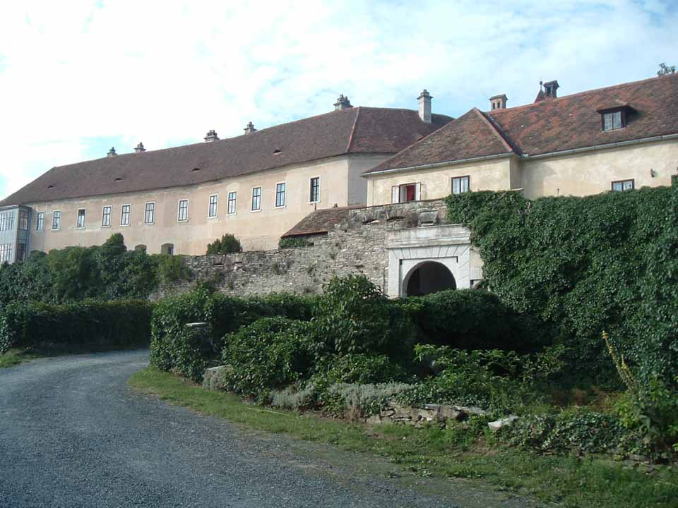 The Castle of Bernstein